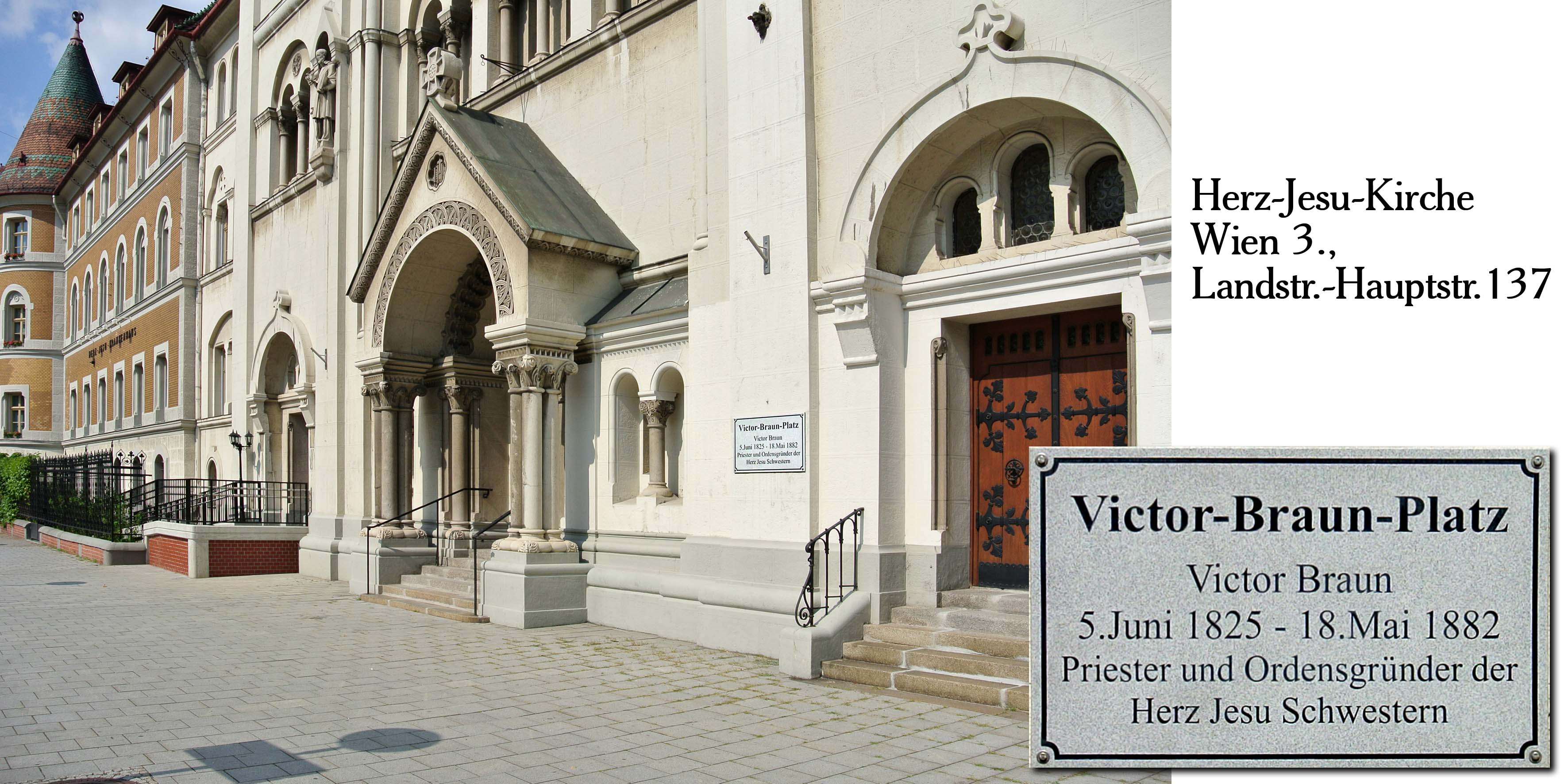 Peter Viktor Braun (born June 5, 1825 in St. Avold, Lorraine – may 18, 1882 in Argenteuil) was a Catholic priest of the Diocese of Metz and founder of "servants of the most sacred heart of Jesus".